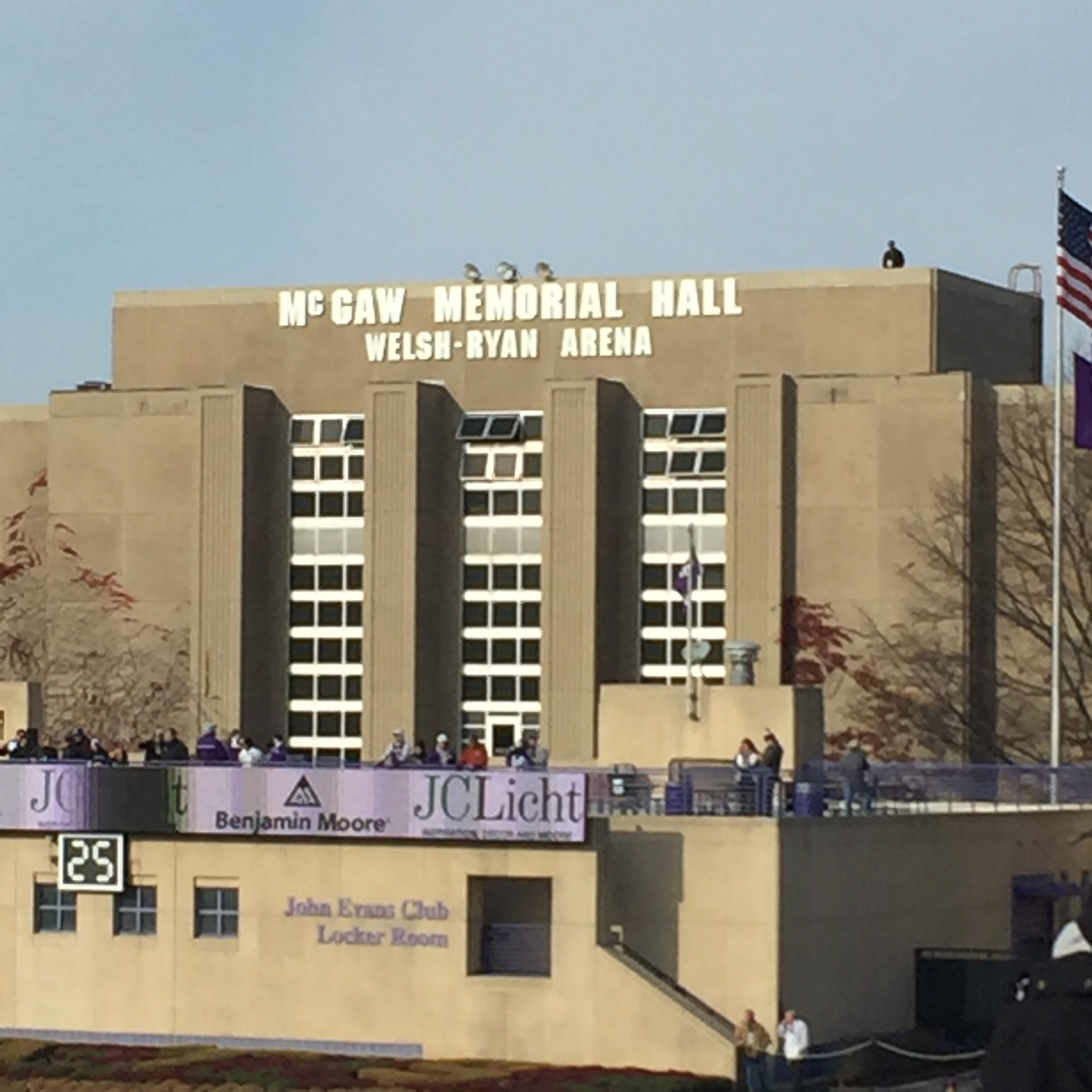 2016 Illinois-Northwestern game